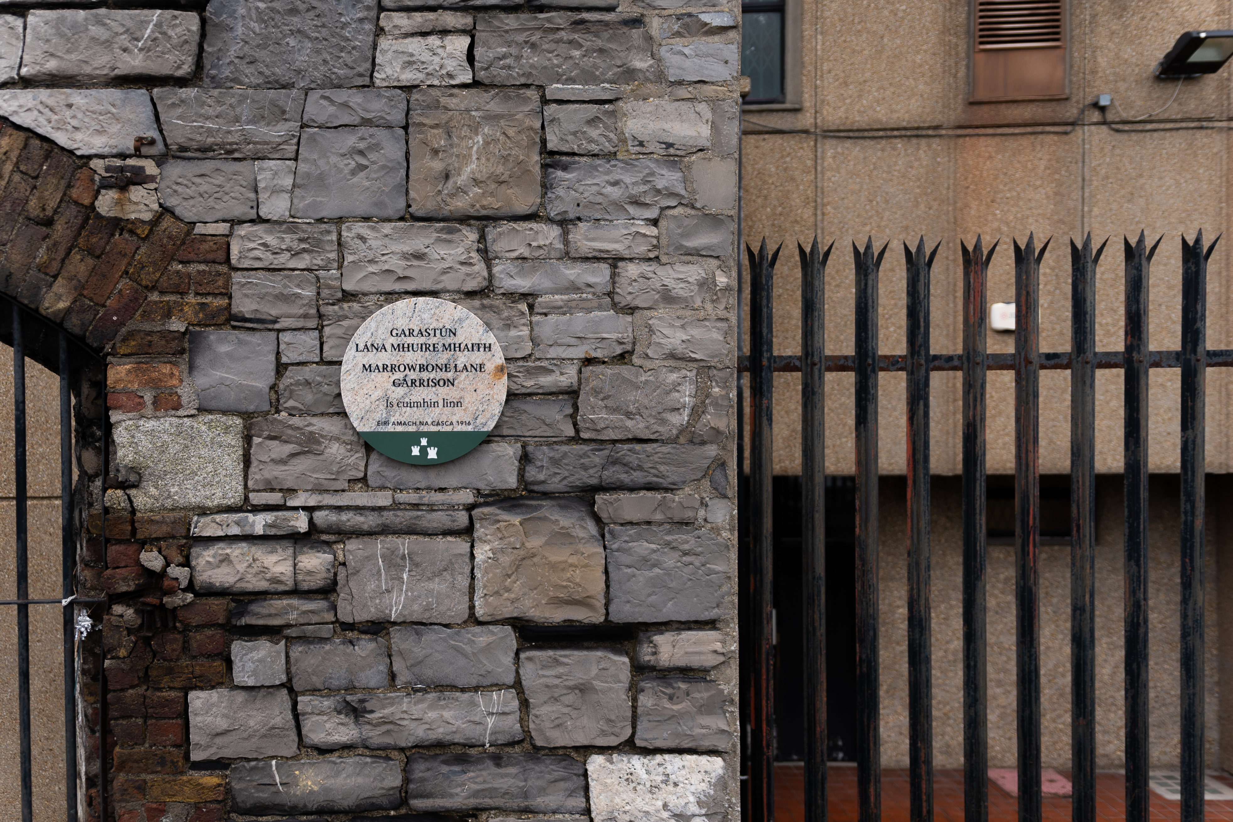 A Dublin City Council 1916 Commemorative plaque, unveiled on 24th April 2016, to commemorate the Marrowbone Lane Garrison in the 1916 Rising.